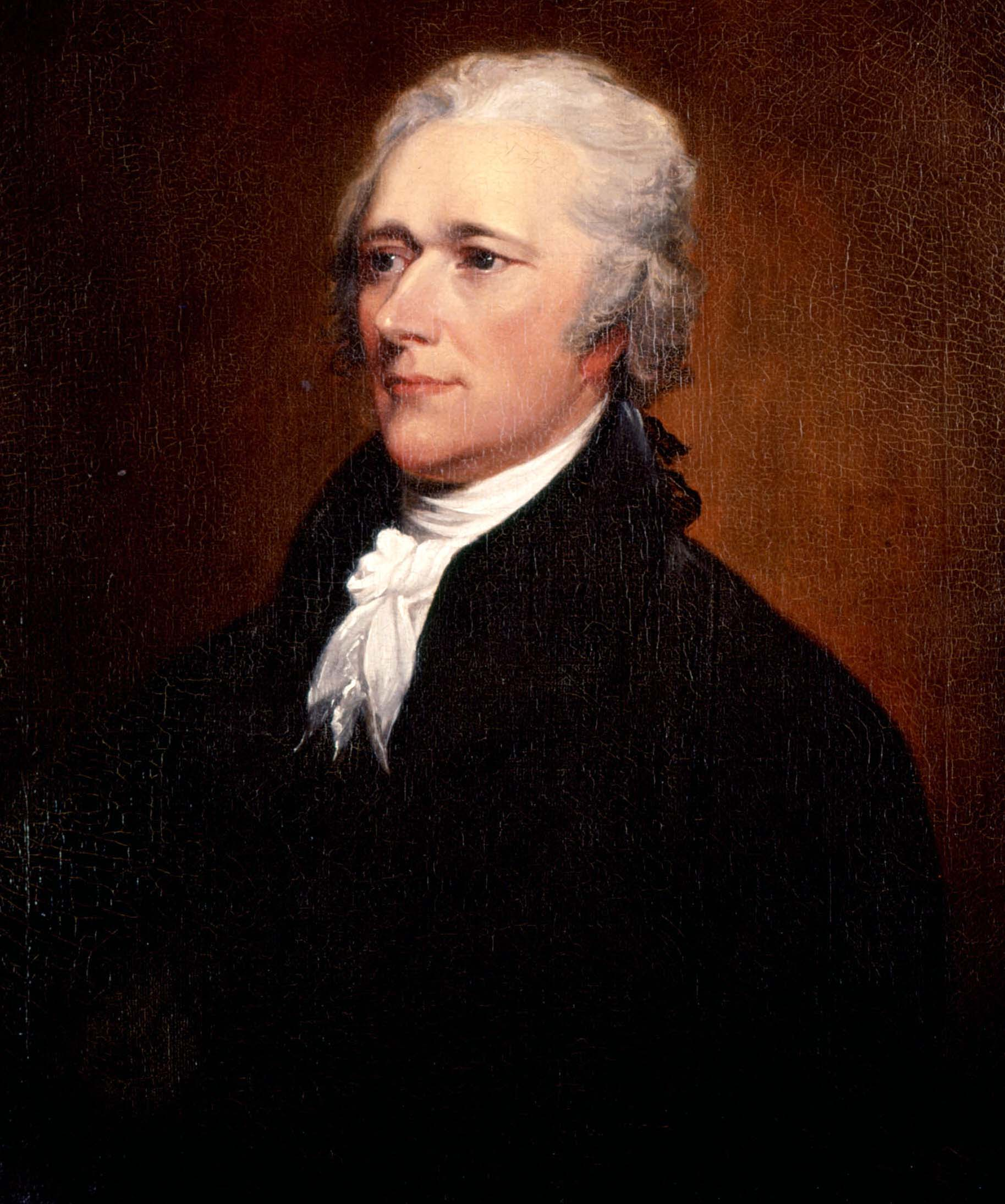 Alexander Hamilton, by John Trumbull, 1804.